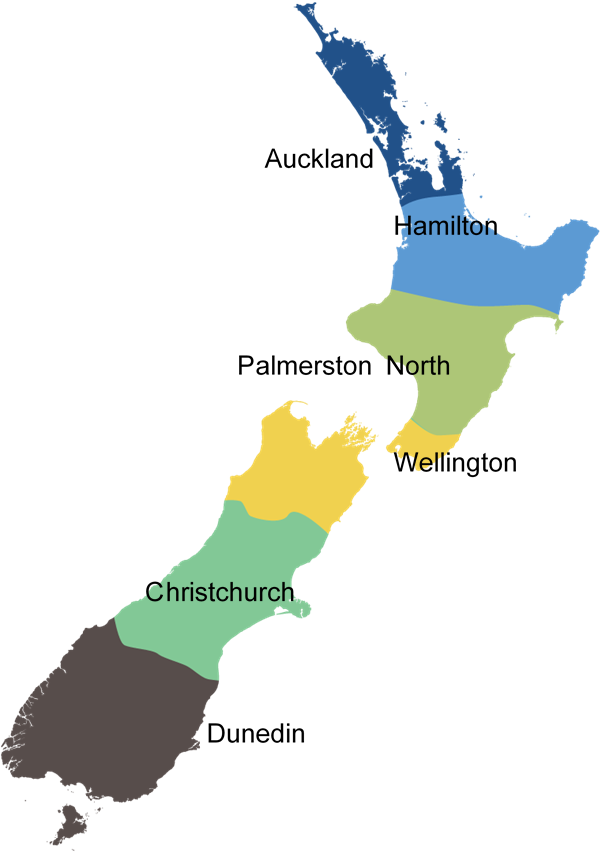 Colours indicating the Catholic dioceses in New Zealand